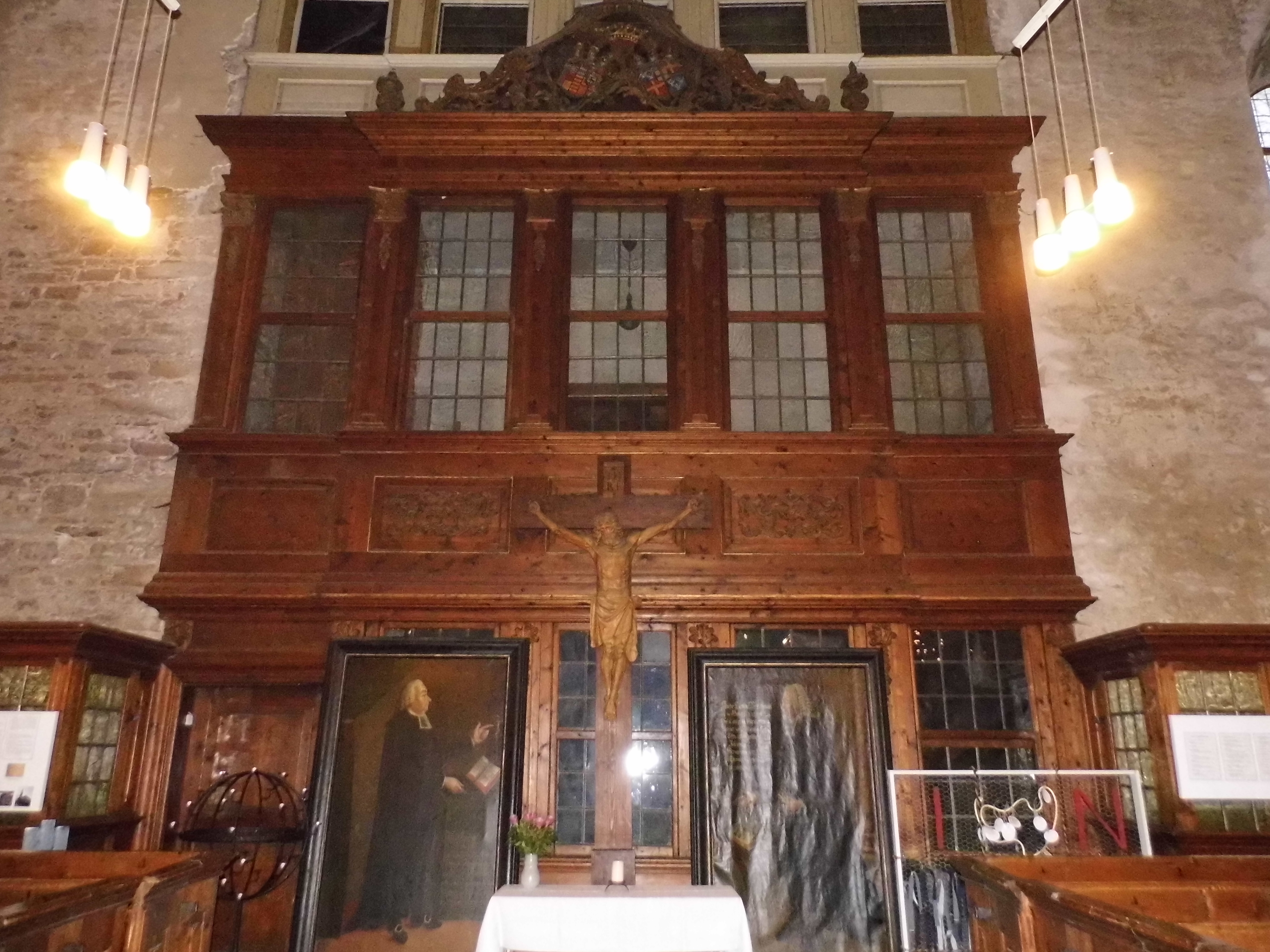 Die Fürstenloge